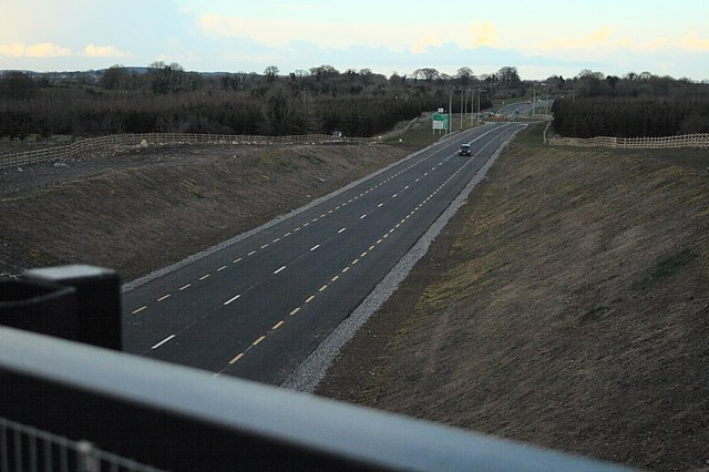 New road The N6 near Rochfortbridge, from the bridge carrying the R400.